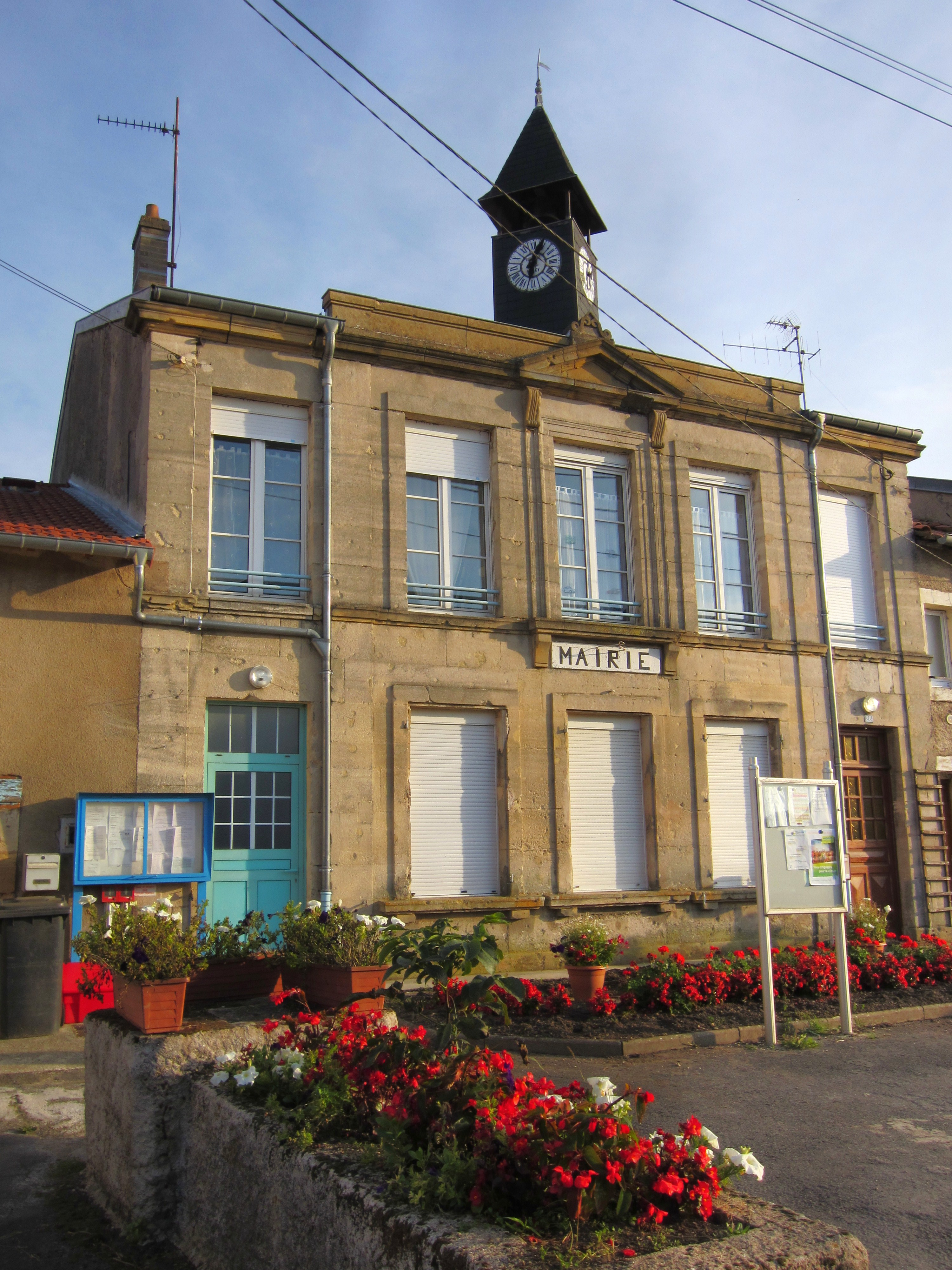 Description mairie Harville Date25 September 2011Sourcemon appareil photoAuthorAimelaimePermission(Reusing this file) mairie Harville